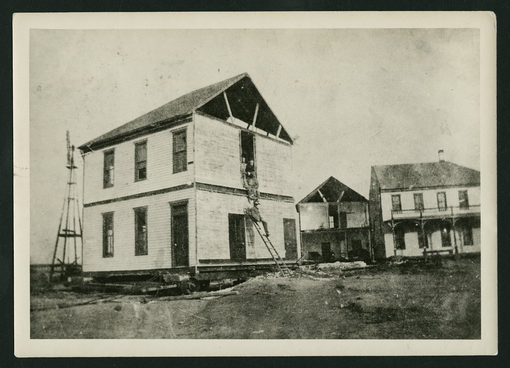 Kansas Historical Socitey: This is a photograph showing men preparing to move a hotel to the new Ulysses, Kansas. On February 6, 1909, the town was moved from its original location to escape payment of $35,000 in bonds plus $10,000 interest for waterworks and other improvements. The indebtedness was greater than the assessed valuation of the property. The Hotel Edwards had to be cut into three pieces to be moved.